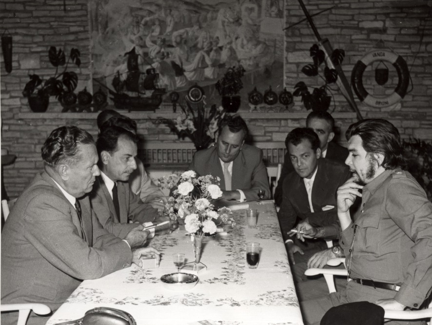 Brioni, 1959 - Tito with Ernest Che Guevara, Cuban Good Will Mission with the associatesLegacy of Konstantin Koca Popovic and Leposava Lepa Perovic, album no. 20